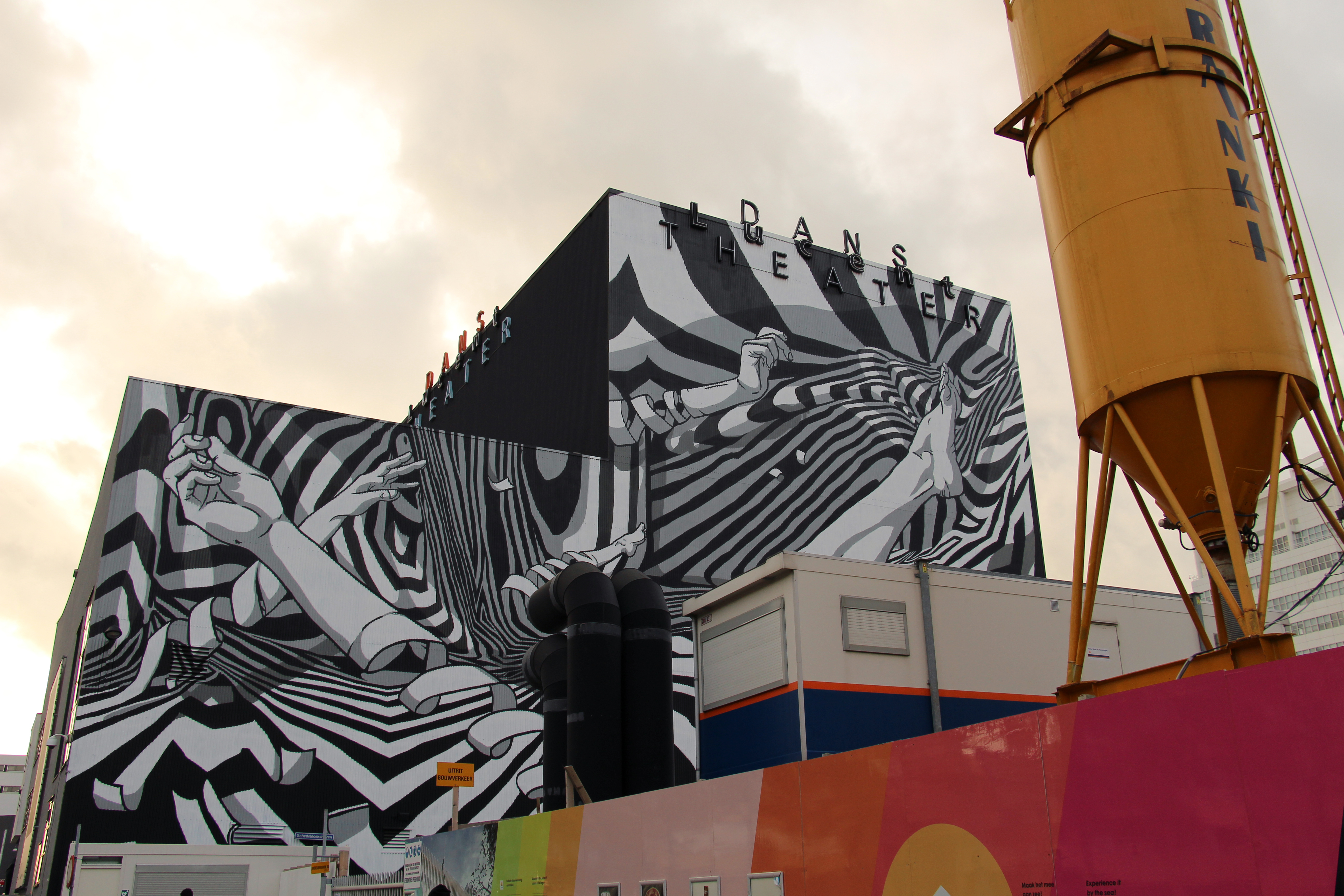 Wijnhaven / Schedeldoekshaven Netherlands Dance Theater in reconstruction.